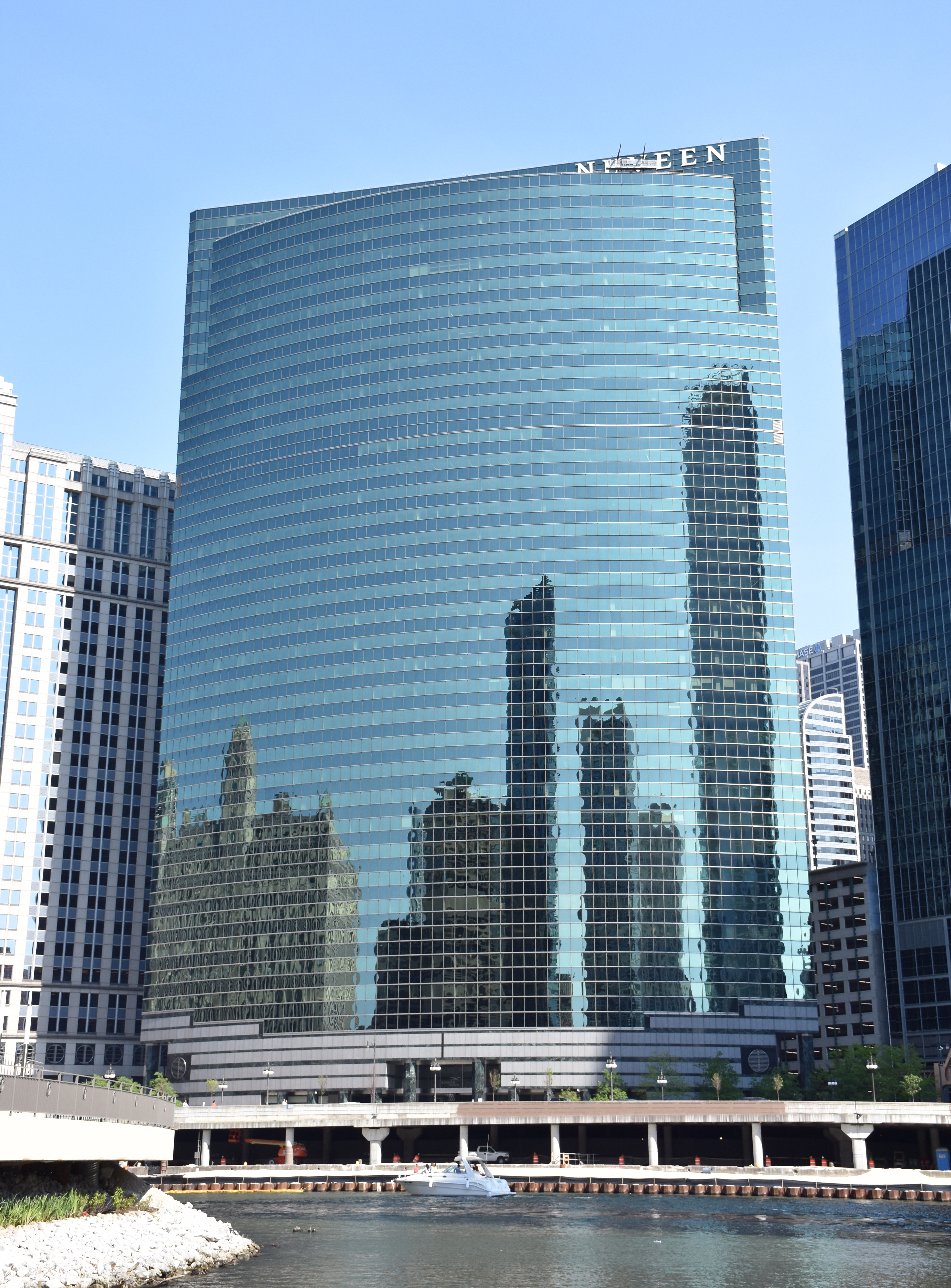 333 Wacker Drive, Chicago in May 2016.